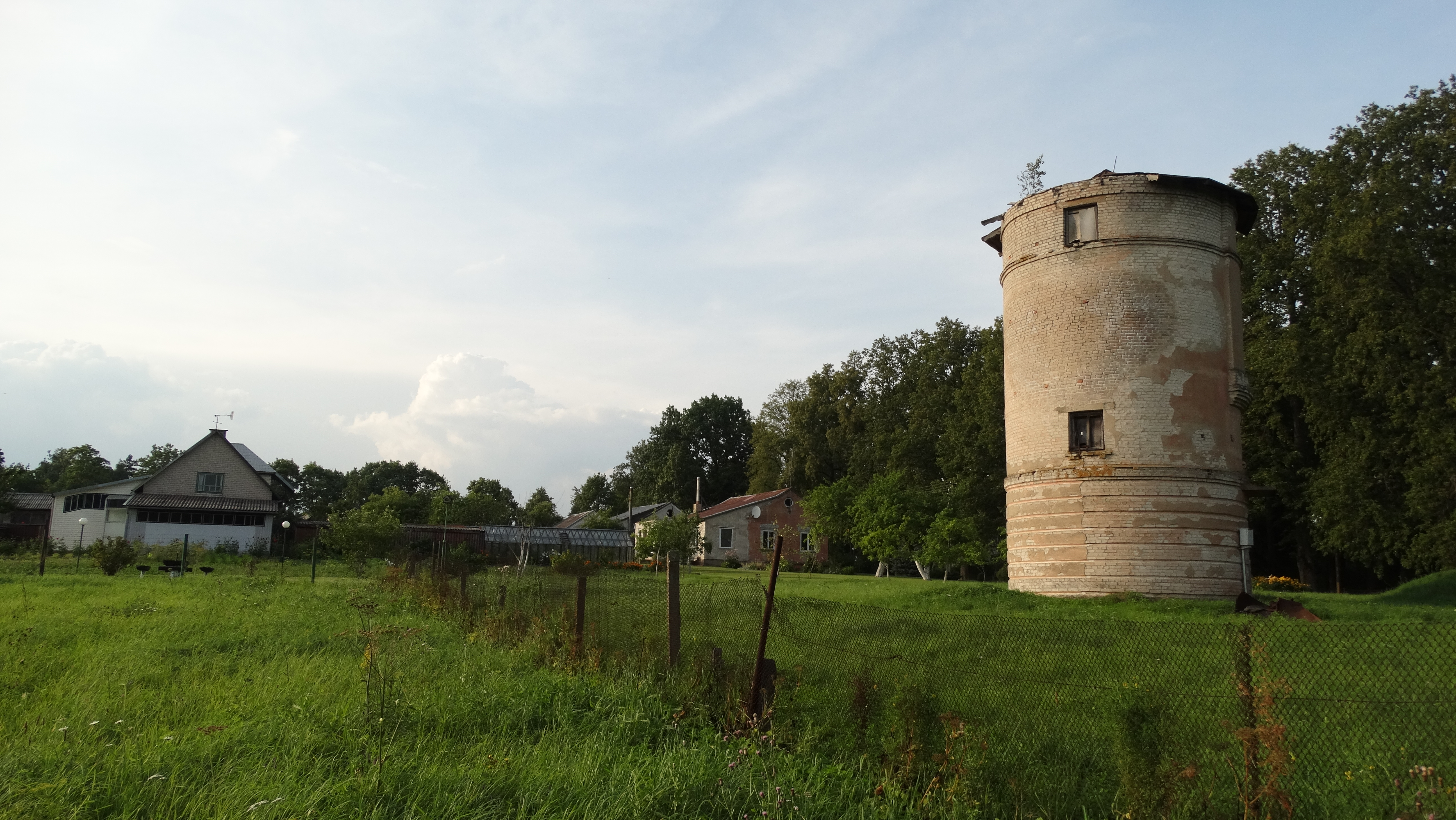 Cirkliškis, Švenčionys District, Lithuania